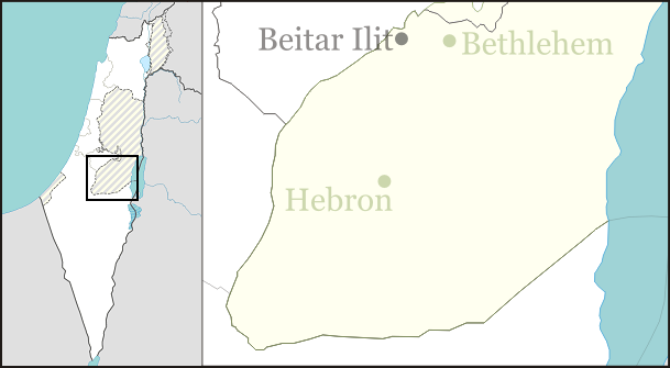 Southern West Bank (Judea region) for pushpin maps.